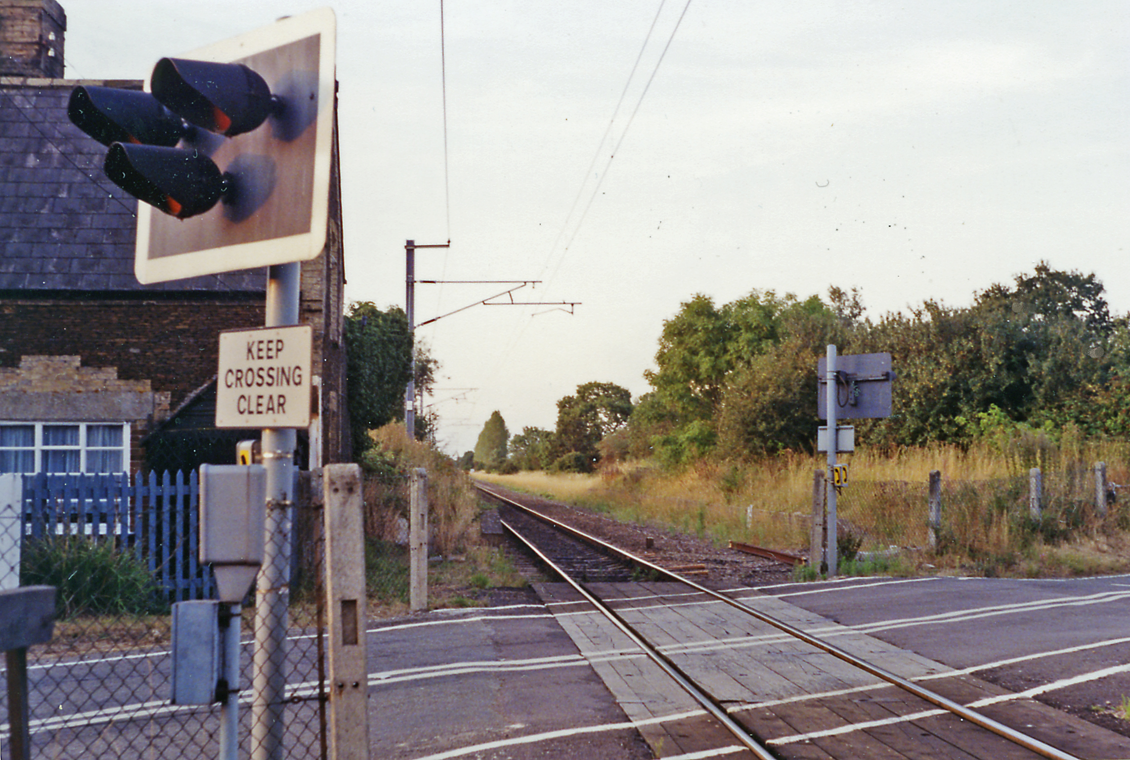 Site of Denver station, 1991. View northward, towards King's Lynn: ex-GER (London - Cambridge) - Ely - King's Lynn main line - very recently electrified, also singled over this stretch. Until 19/4/65 there was a branch from here to Stoke Ferry, but Denver station and the branch lost passenger services from 22/9/30.